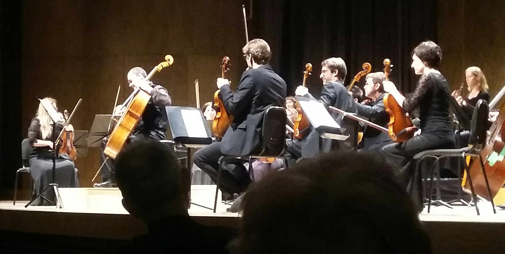 Christophe Coin & friends photographed in Montreal, Quebec, Canada inside the MBAM Bourgie Hall.